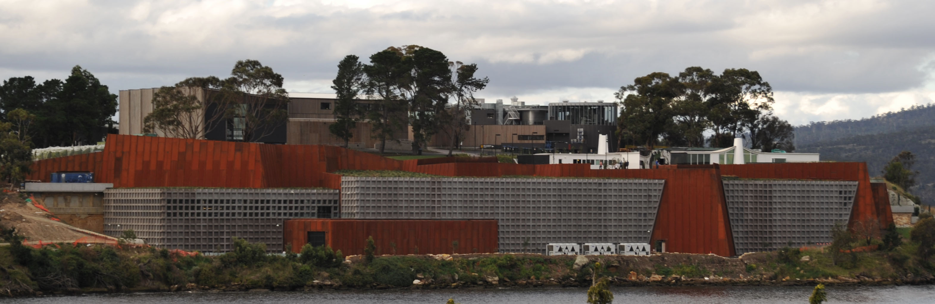 MONA - Hobart, Tasmania